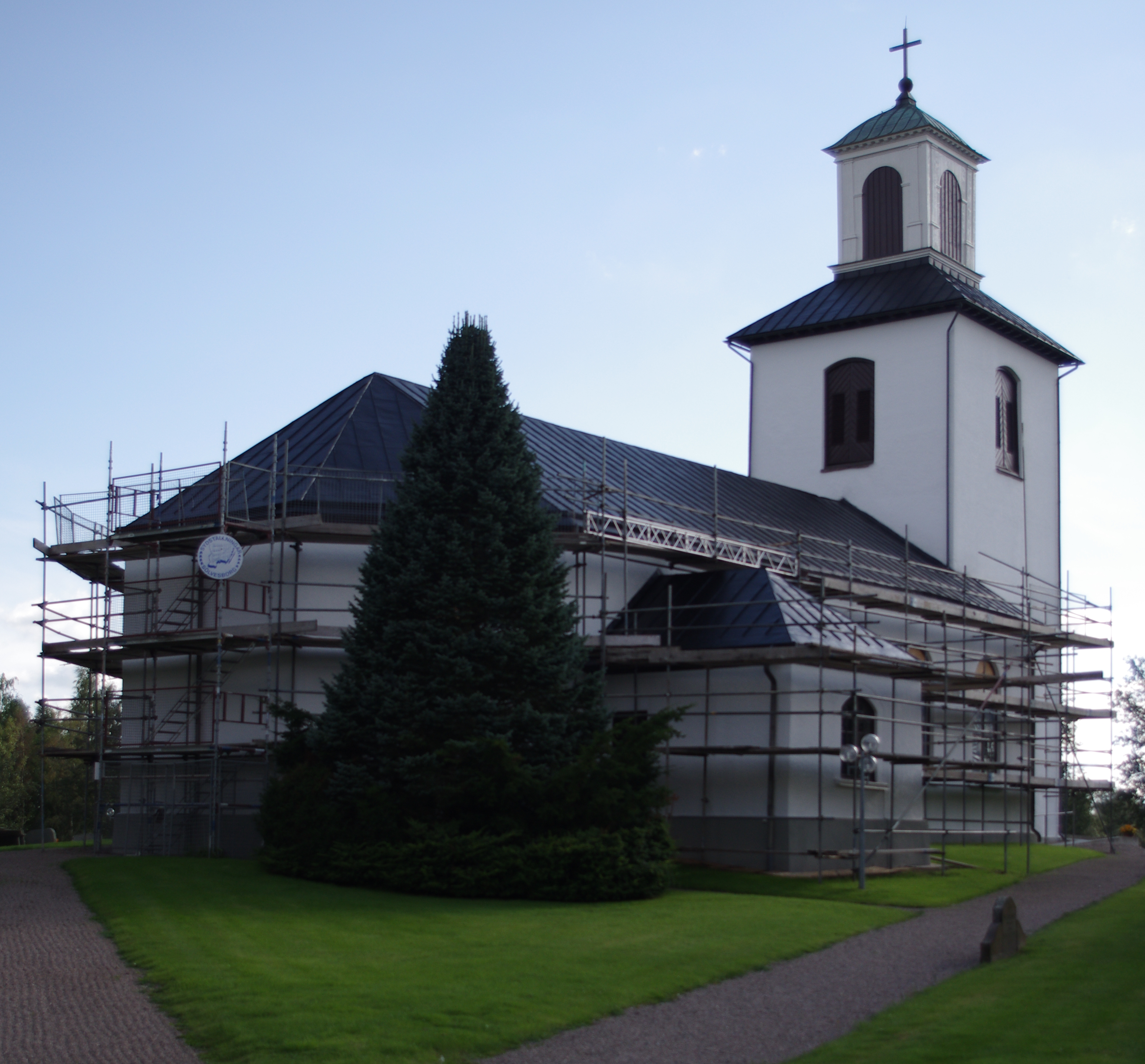 Kölaby church in Ulricehamn muicipality in Västergötland and Västra Götaland county, Sweden.